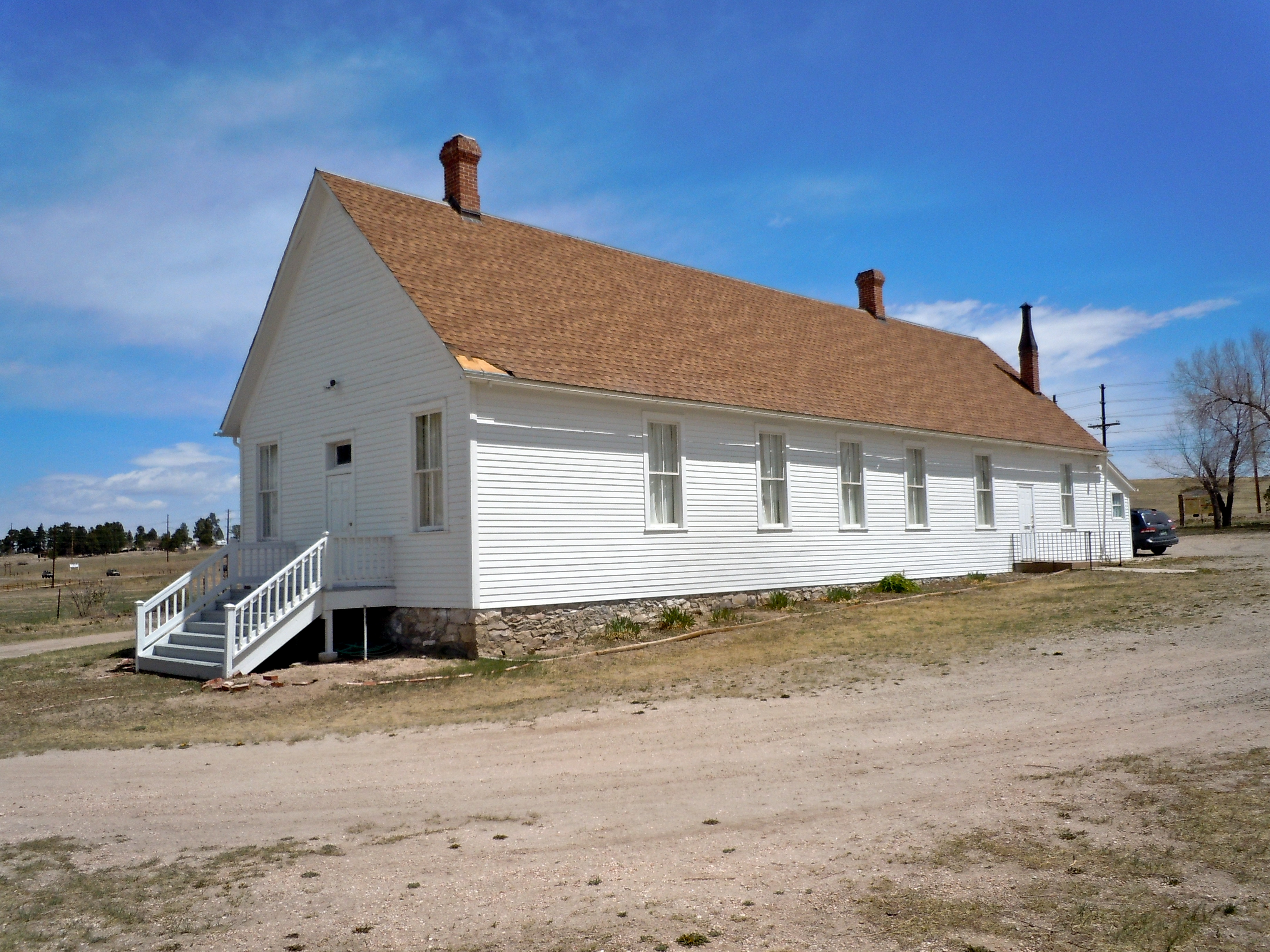 Pike's Peak Grange No. 163 on the NRHP since October 1, 1990. At 3093 State Highway 83, Franktown, Douglas County, Colorada